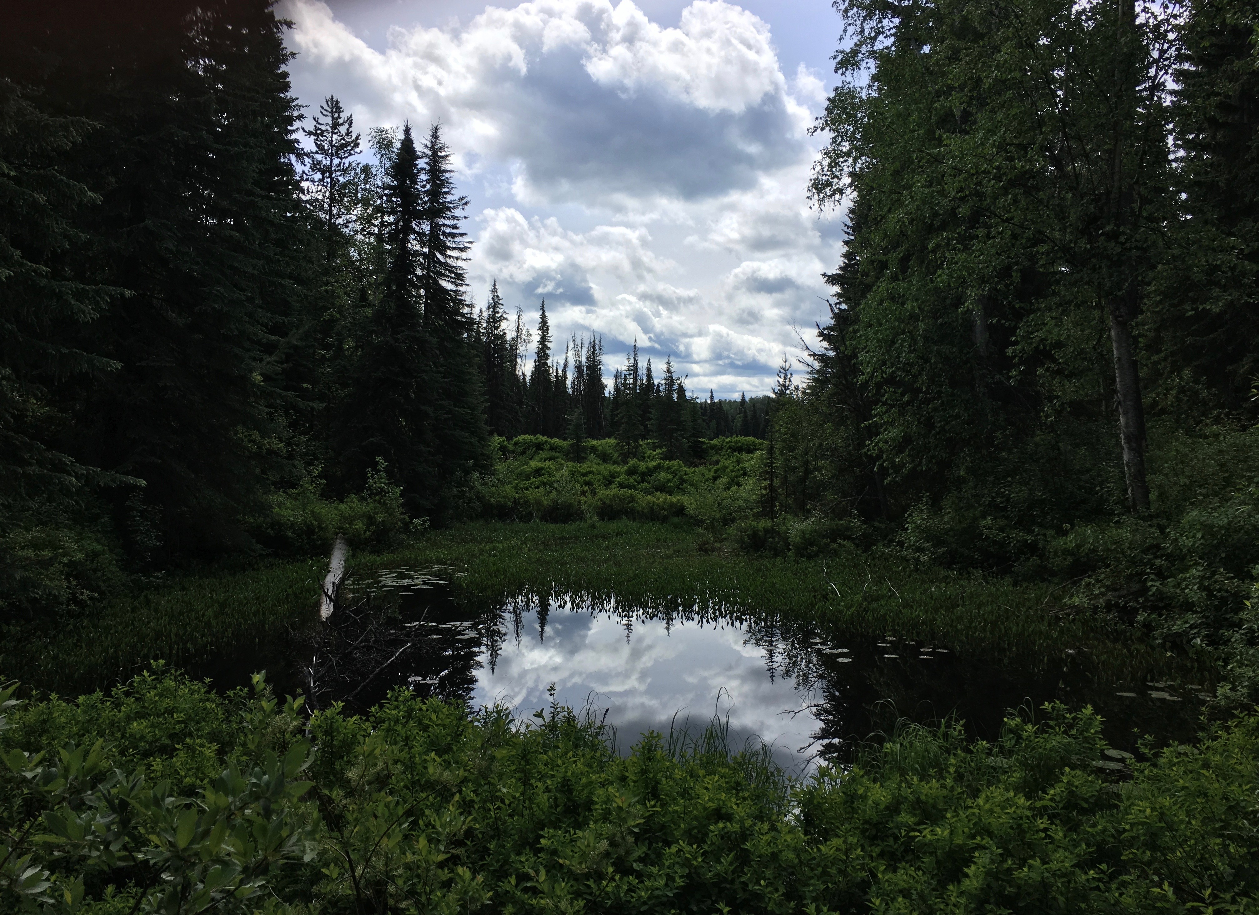 Pine Marsh in Eskers Provincial Park, Prince George, B.C., Canada. Beaver dam and pond visible.